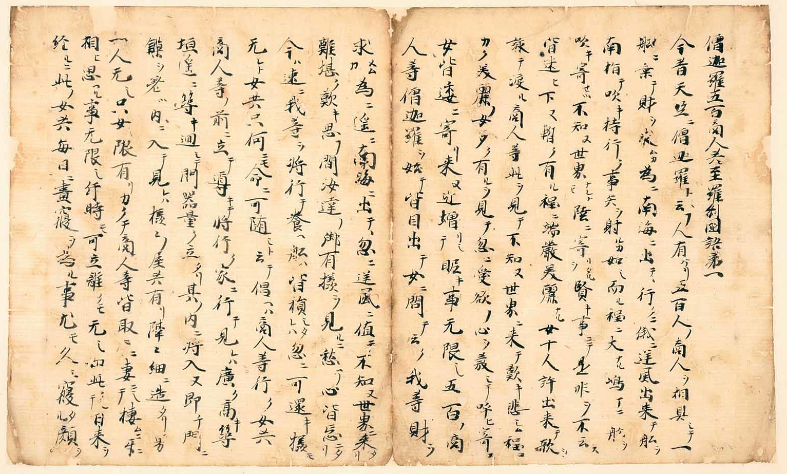 Anthology of Tales from the Past (今昔物語集, Konjaku Monogatarishū). page 5 and 6 of vol. 5